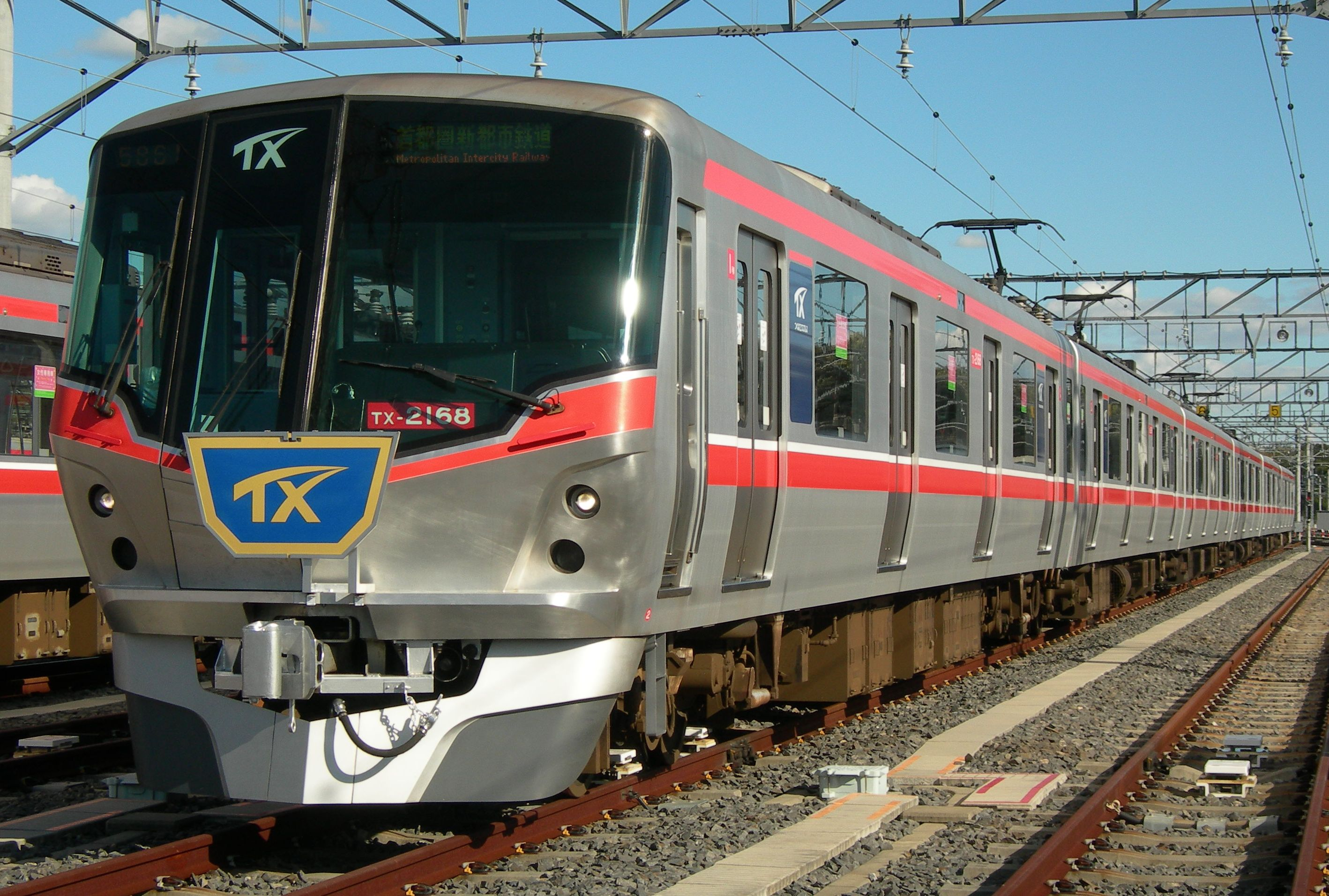 Tsukuba Express TX-2000 series EMU set 68 (later build)